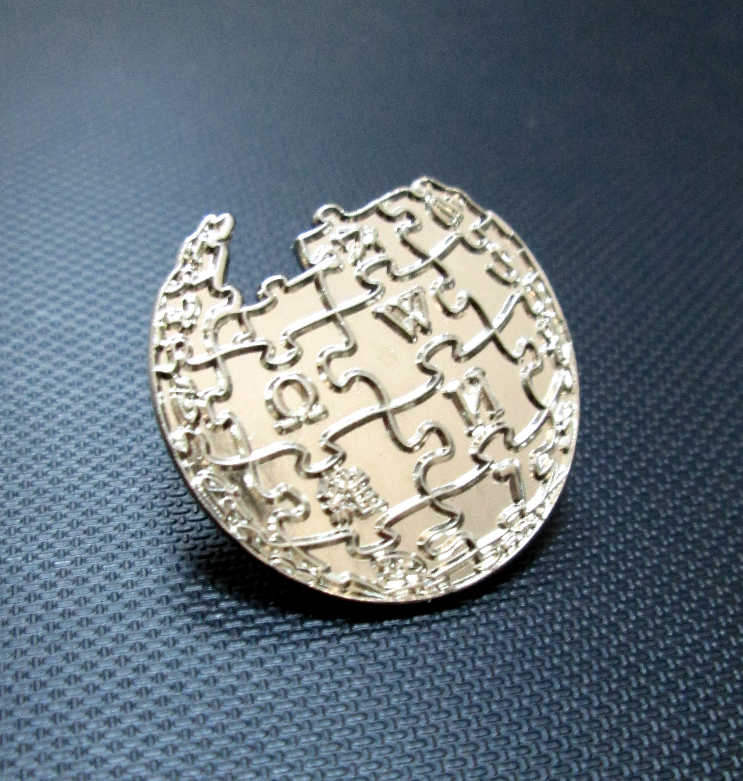 Wikipedia globe badge